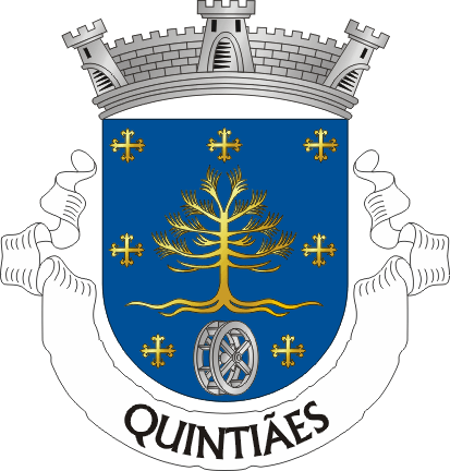 Crest of Quintiães, a parish in the municipality of Barcelos (Portugal)